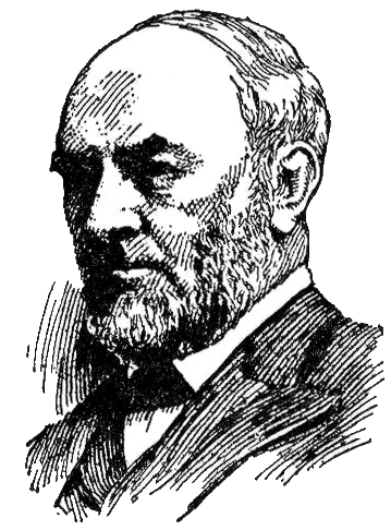 This image has been extracted, rotated, retouched and resaved from The New Student's Reference Work. source This file has been extracted from another file: LA2-NSRW-1-0467.jpg Licensing Category:Aberdeen